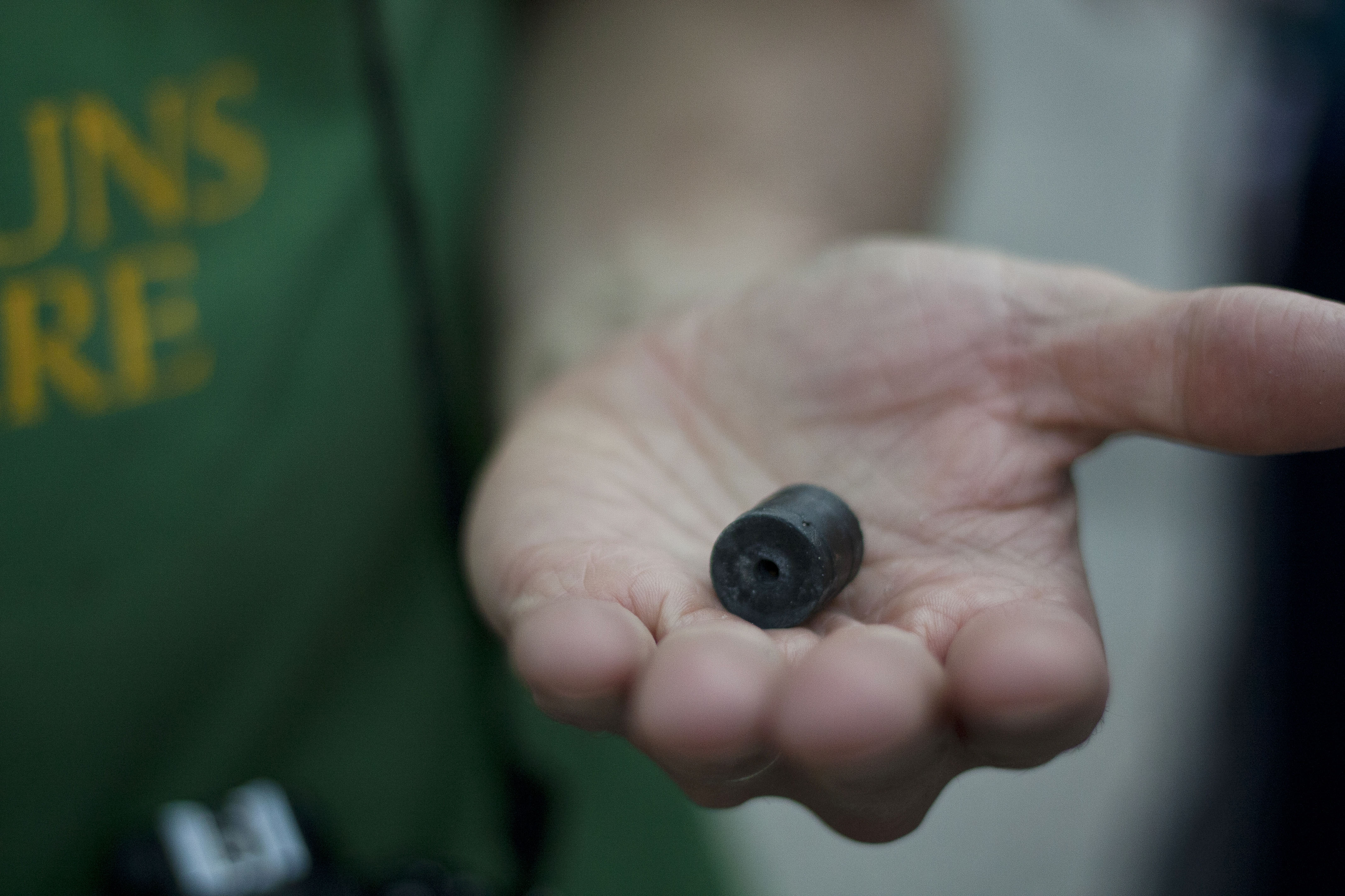 An American photojournalist holding an Israeli rubber bullet shot near him during clashes in Bethlehem, West Bank. (Photo By: Mustafa Bader)